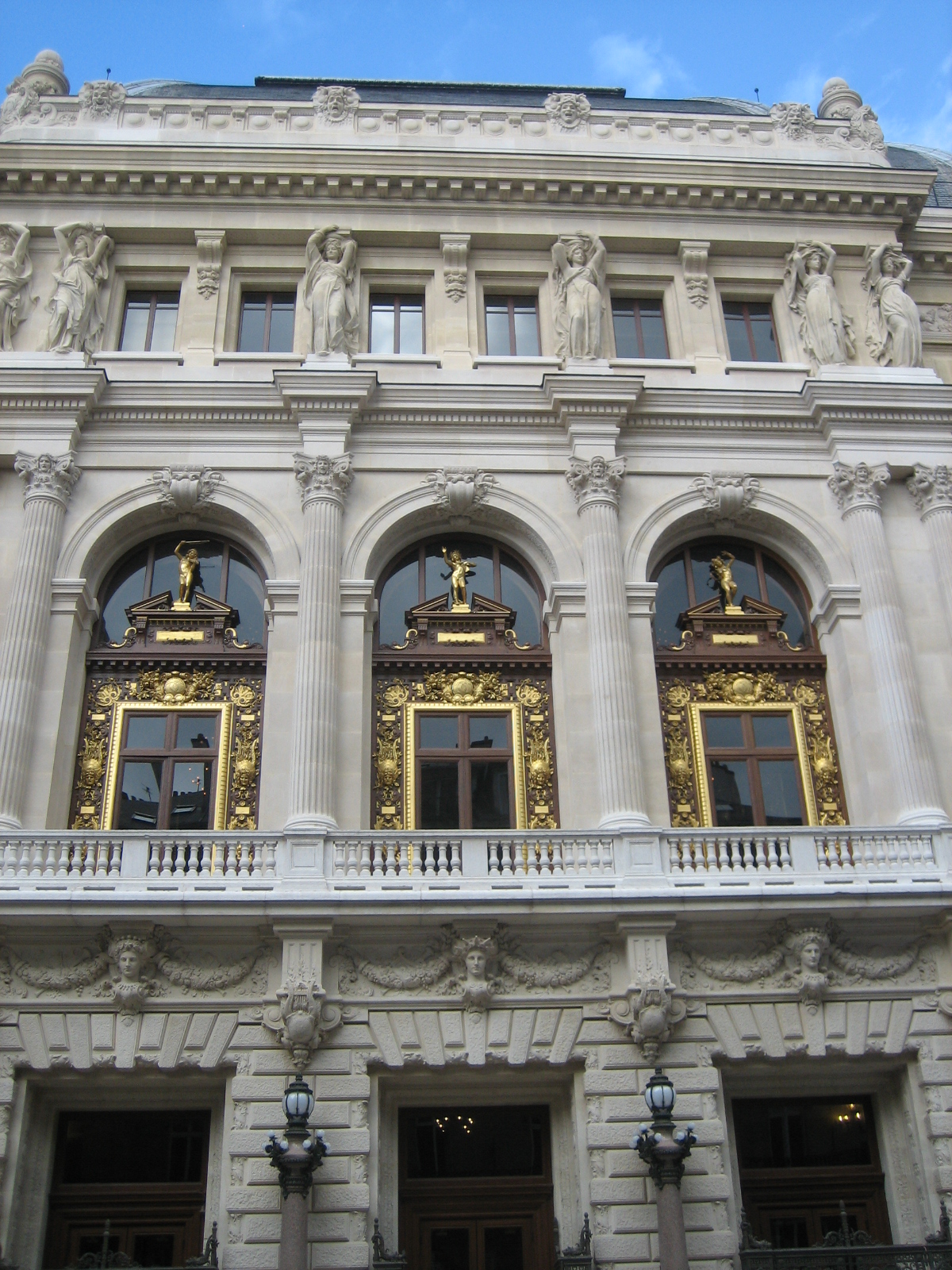 Théâtre National de l'Opéra-Comique ("Salle Favart"); Paris.